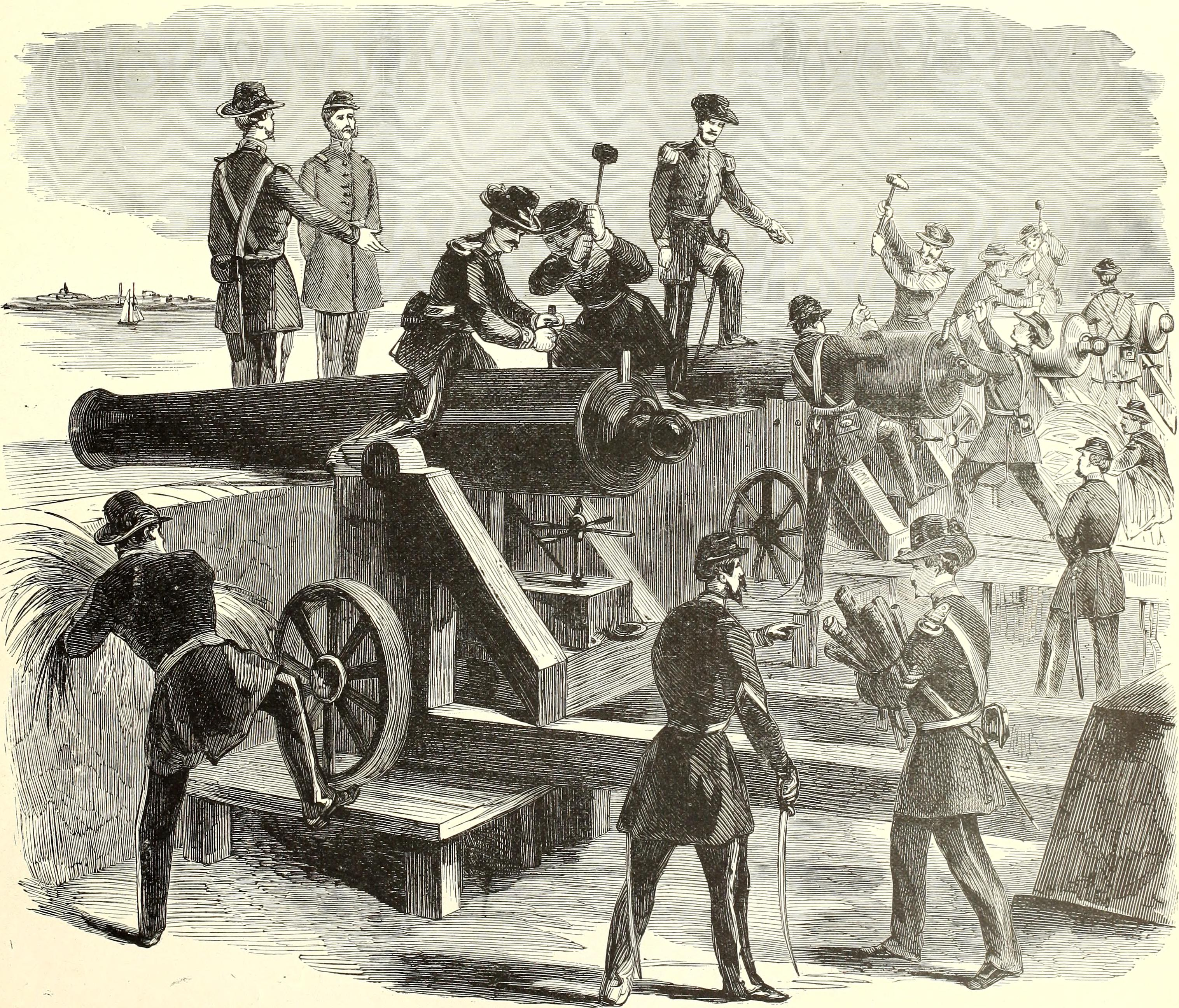 Title: Frank Leslie's scenes and portraits of the Civil War ... Year: 1894 (1890s) Authors: Leslie, Frank, 1821-1880 Subjects: Publisher: New York : Mrs. F. Leslie Text Appearing Before Image: 2 l;lP;E^Ul,,ta,Tl S B H ■ B, B H a a E 1 B B B B 1 FORT PICKENS, ON SANTA ROSA ISLAND, PENSACOLA BAY, FLA. Fort Pickens is a bastioned work of the first class. Its walls are forty-five feet in height by twelve in thickness. It is embrasured for two tiers of guns, which are placed under bombproof casemates, besides having one tier of guns en barbette. The guns from the work radiate to every point of the horizon, with flank and enfilading fire, at every angle of approach. The work was commenced m 1828, and finished in 1853 at a cost of nearly one million dollars. When on a war footing its garrison consists of 1,260 soldiers. The total armament of the work, when complete, consists of 210 guns, 63 of which are iron 42-pounders. Text Appearing After Image: SPIKING THE GUNS OF FORT MOULTRIE BY MAJOR ANDERSON, BEFORE ITS EVACUATION, DECEMBER 26th, 1860. Page 55. Toward the middle of December it became evident, from the magnitude of military operations going on, and other indications, coupled with significant threats in the South Carolina Convention and out of it, that an occupation of Castle Pinckney and Fort Sumter was meditated. Major Anderson decided to anticipate the South Carolinians in their contemplated manoeuvre. Accordingly, on the night of December 26th, at the very time the South Carolina Commissioners had arrived in Washington to demand the surrender of the forts, he evacuated Fort Moultrie, after spiking the guns and providing for the destruction of their carriages and other material by fire, and with the aid of three small vessels successfully transferred his little command to Fort Sumter. 65